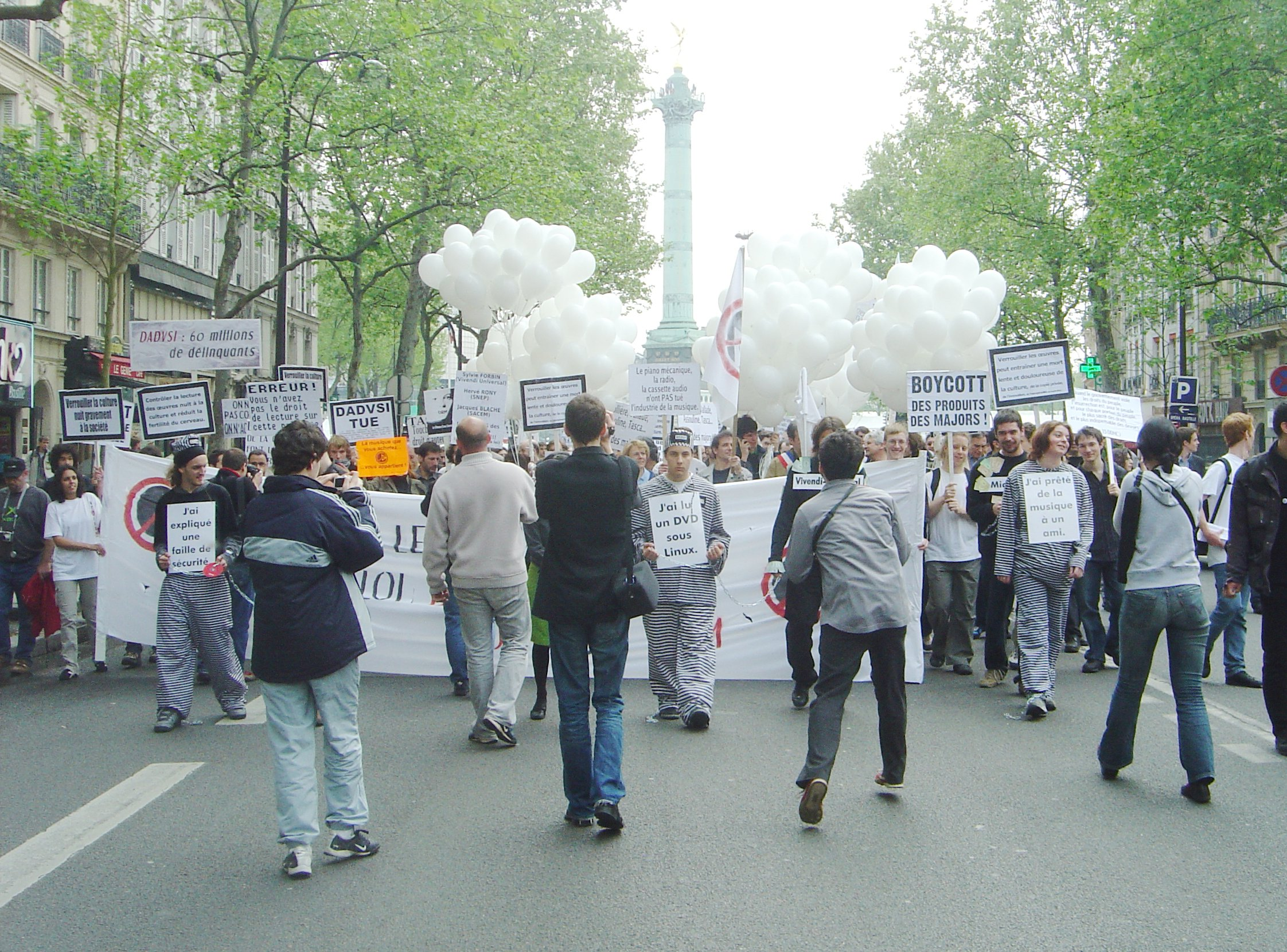 March against digital rights management techniques and the DADVSI copyright law (from Bastille plaza to the Ministry of Culture). Start of the march near Bastille.